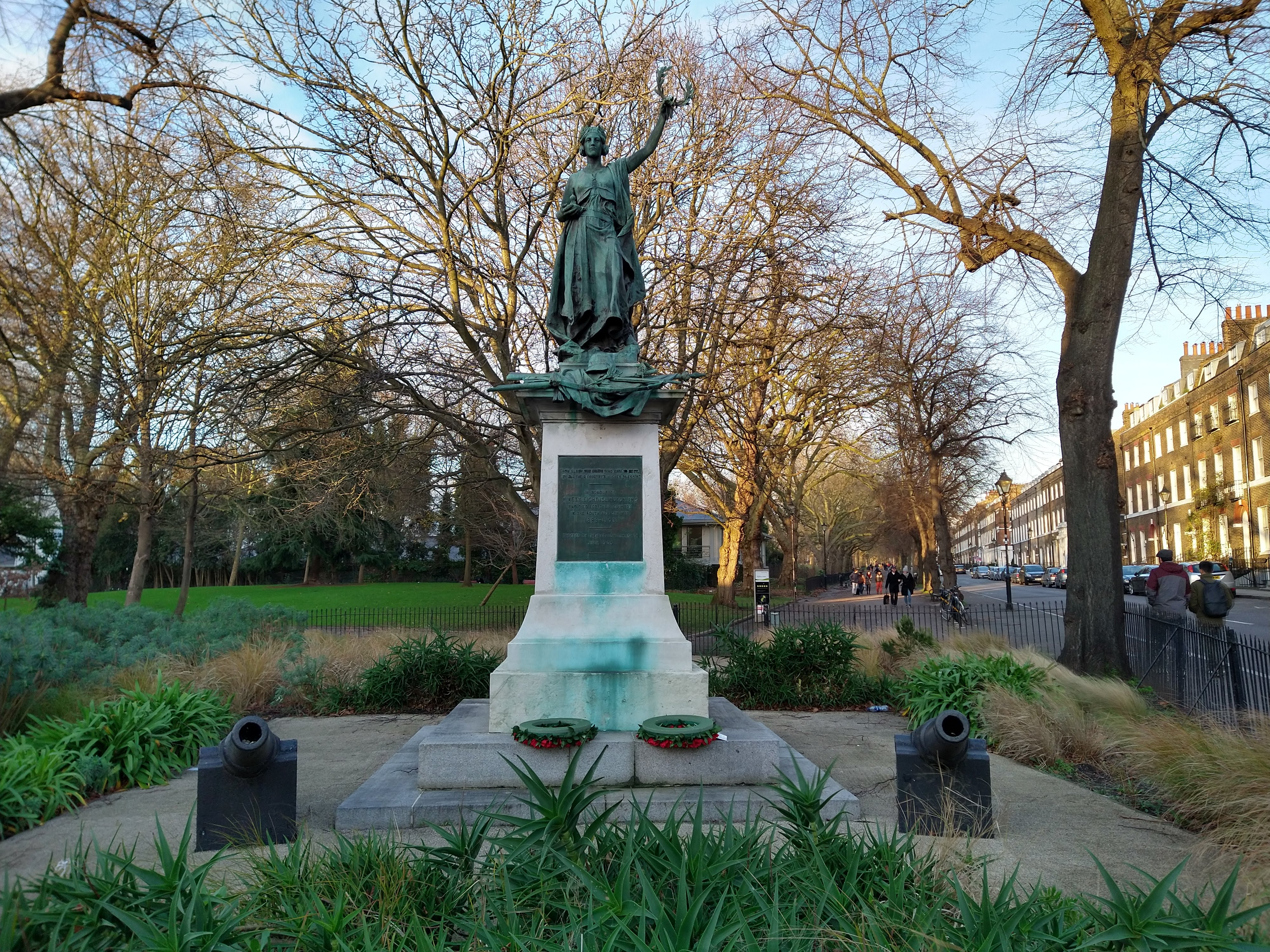 Islington South African War memorial